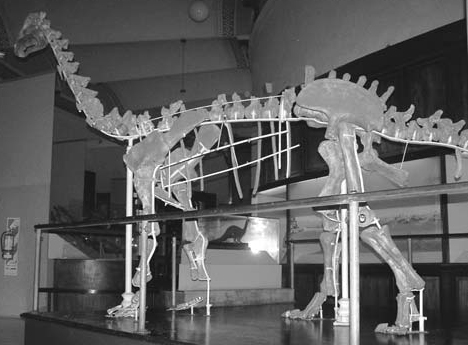 The saltasaurine sauropod Neuquensaurus australis, from the Anacleto Formation (Upper Cretaceous), Patagonia, Argentina. Restoration of the skeleton mounted at the Museo de La Plata, Argentina.